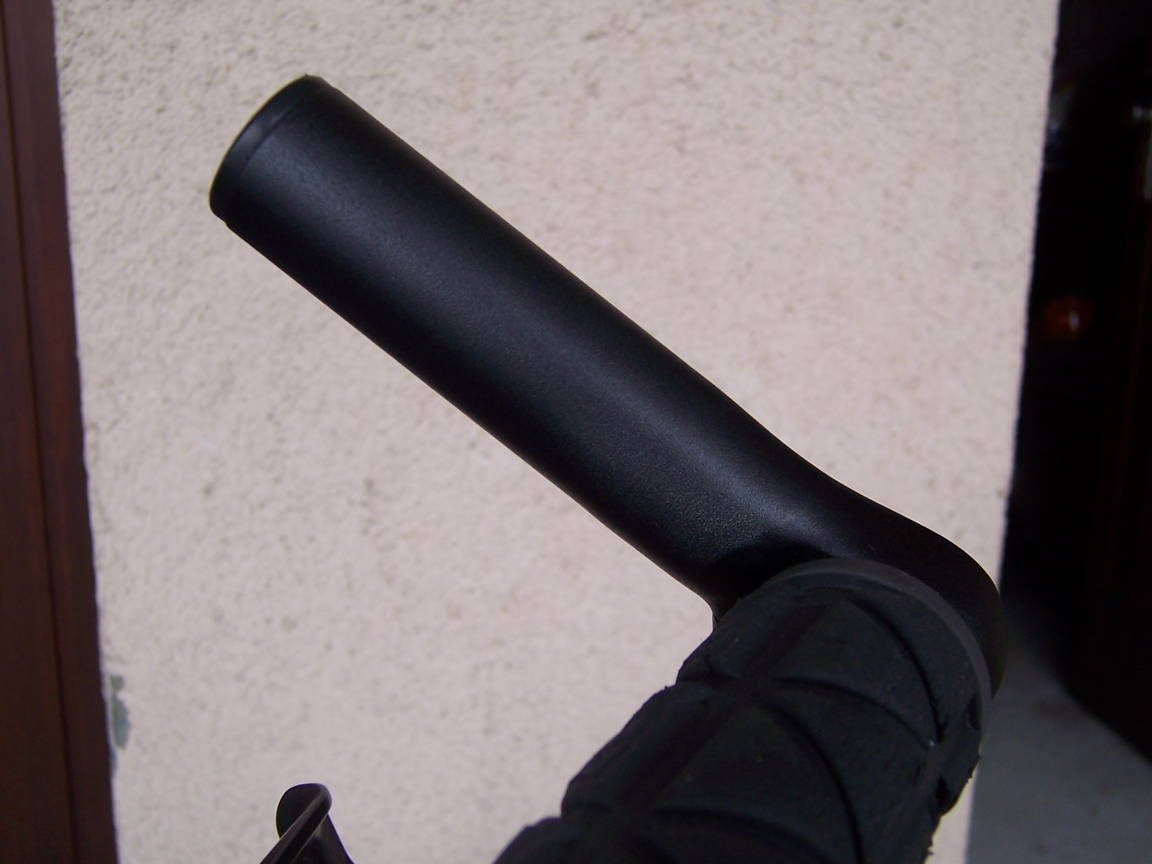 Stubby bar end.